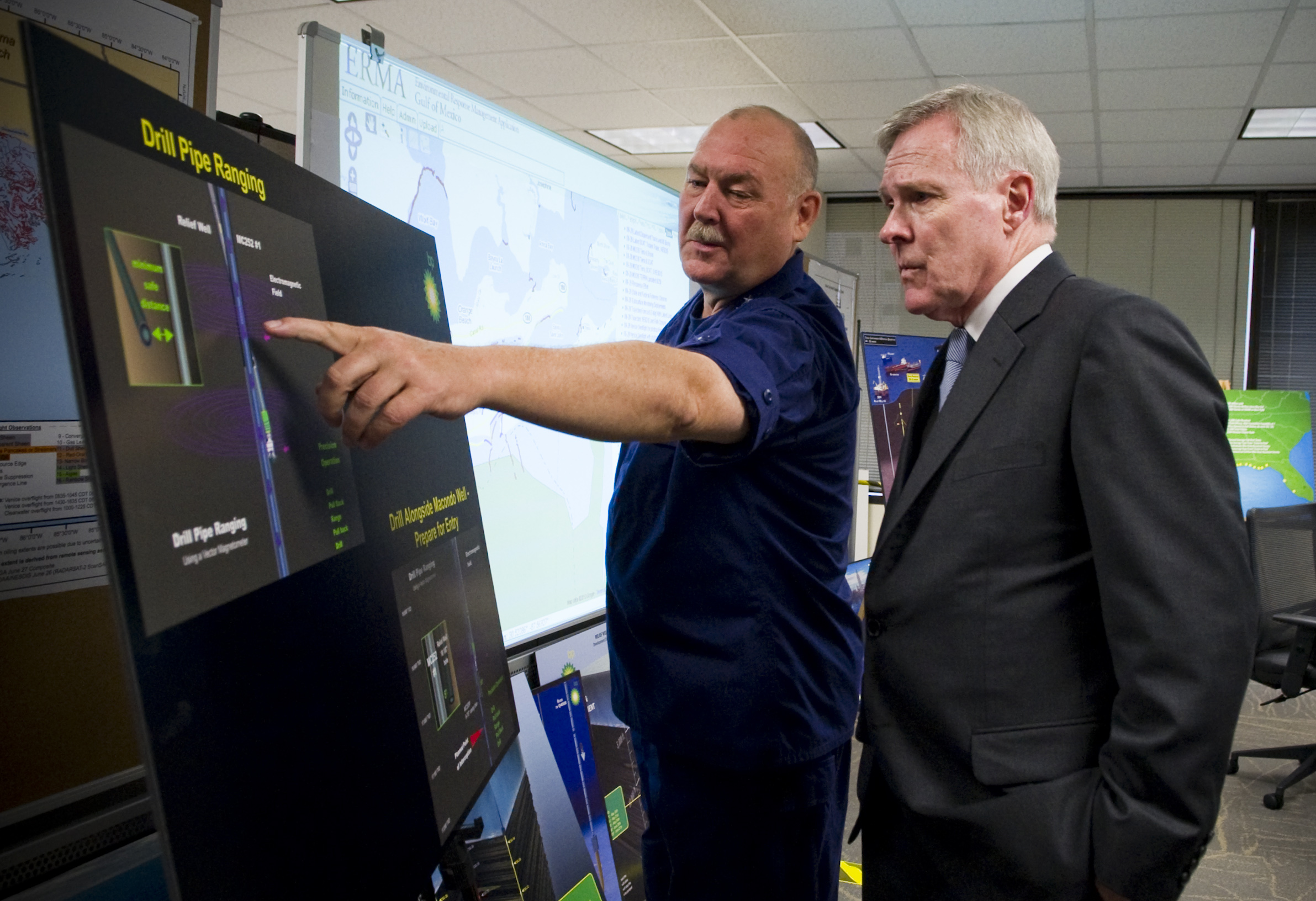 NEW ORLEANS (June 29, 2010) Coast Guard Adm. Thad Allen, national incident commander for the Deepwater Horizon oil spill response, briefs Secretary of the Navy (SECNAV) the Honorable Ray Mabus during a tour of the Unified Area Command Center. Mabus is on a five-day visit to the Gulf Coast to assess the area to develop a long-term restoration plan for the region. He will meet with state and local official in Louisiana, Mississippi, Alabama and Florida. (U.S. Navy photo by Mass Communication Specialist 2nd Class Kevin S. O'Brien/Released)